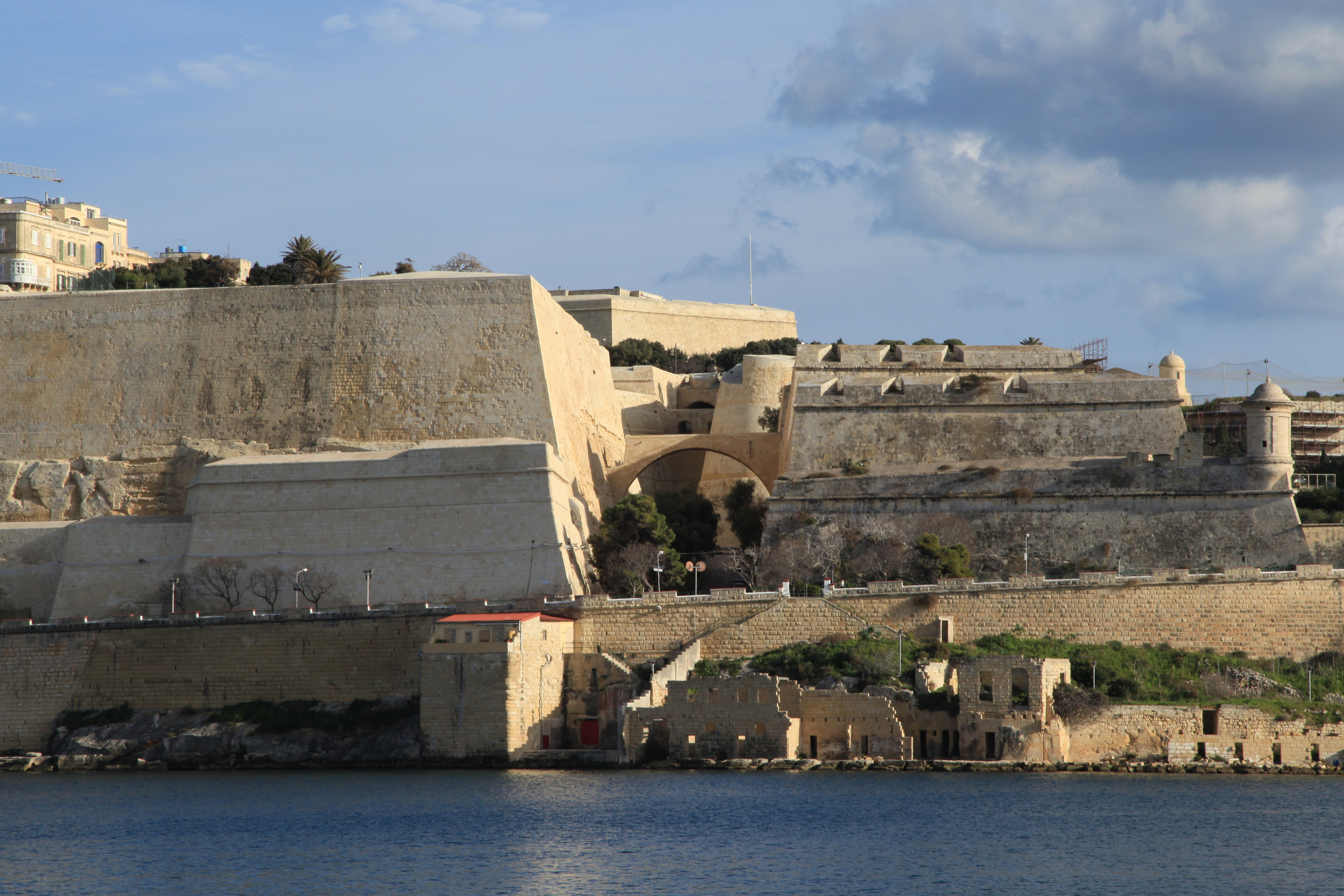 View from Manoel Island in Gżira to St. Michael's Bastion in Valletta, Malta